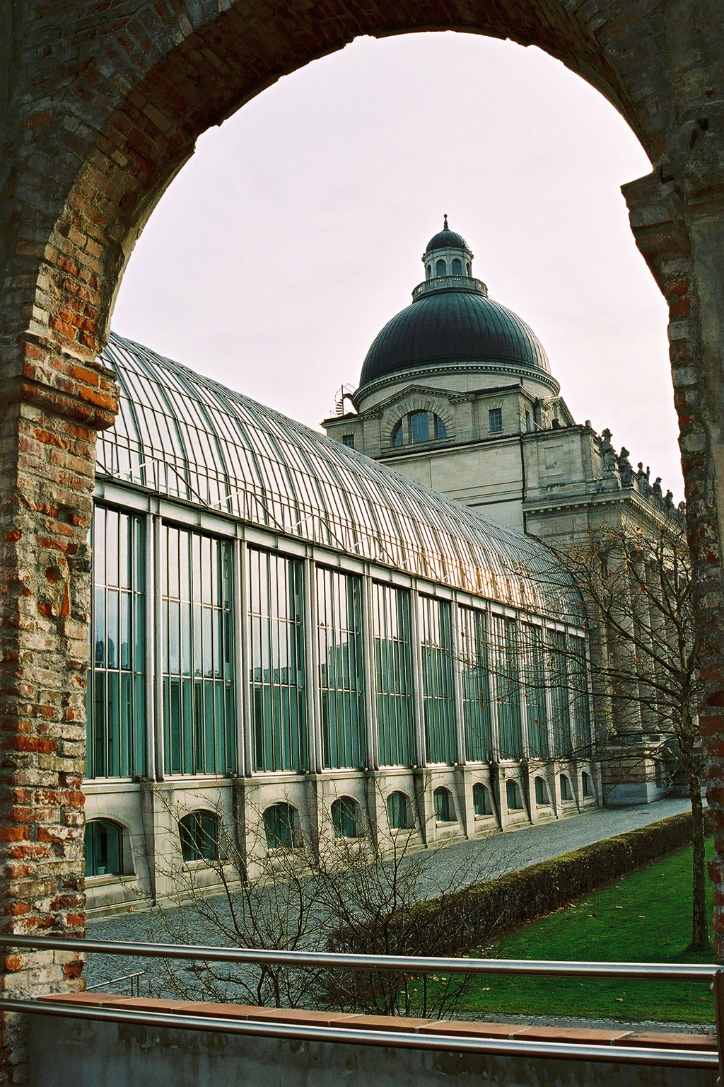 Bayerische Staatskanzlei (Bavarian State Chancellery), Munich Rear front seen through the arcades